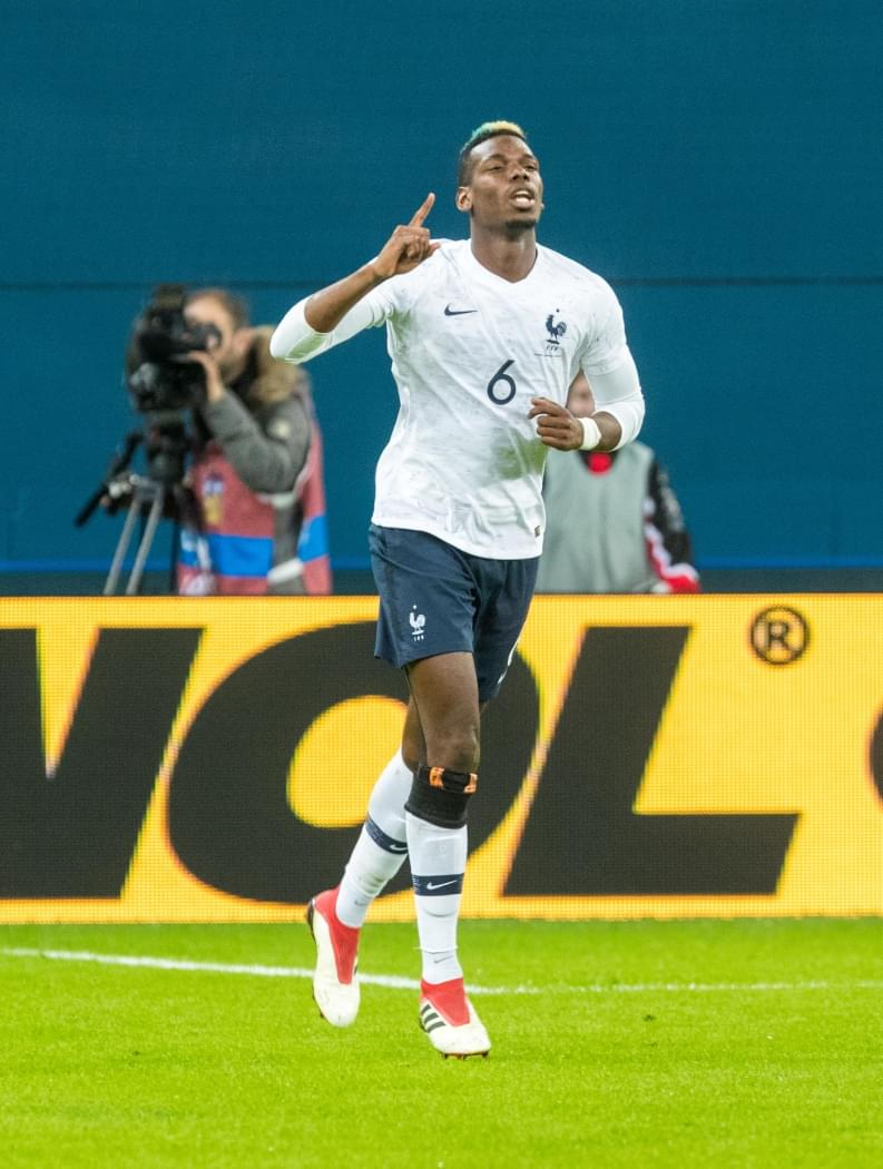 27.03.2018. Россия, Санкт-Петербург, «Санкт-Петербург». Товарищеский матч «Россия» — «Франция».